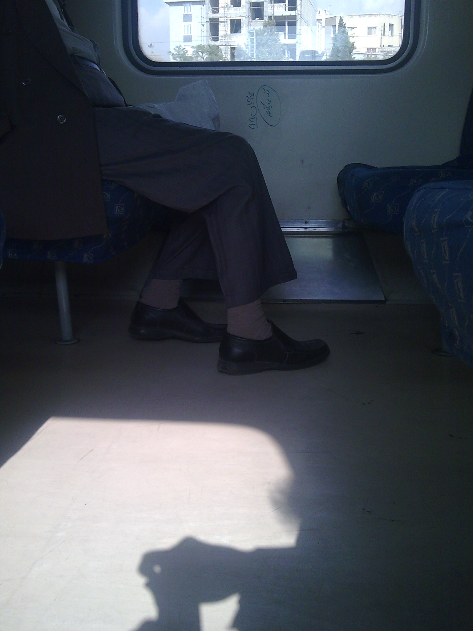 Inviting to Protest in Iran for 13 Aban in Metro Wagon (Last Year Election)